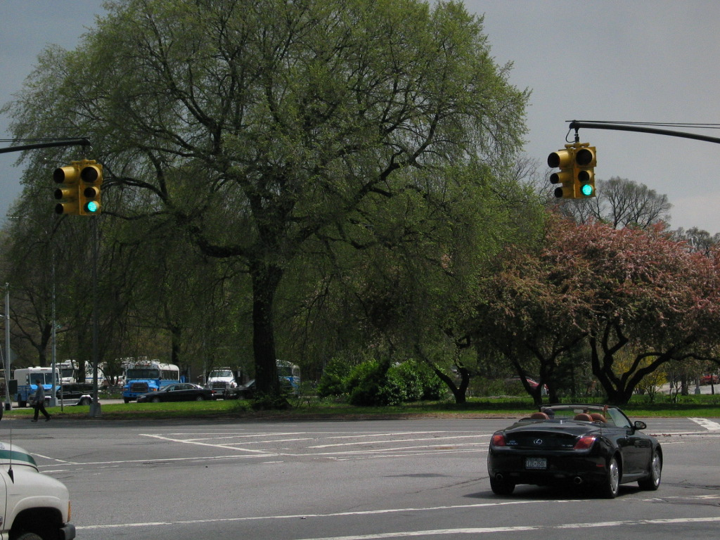 A circle of greenery at the intersection of Prospect Park Southwest and Parkside Avenue in Windsor Terrace looks very romantic, in the middle of spring